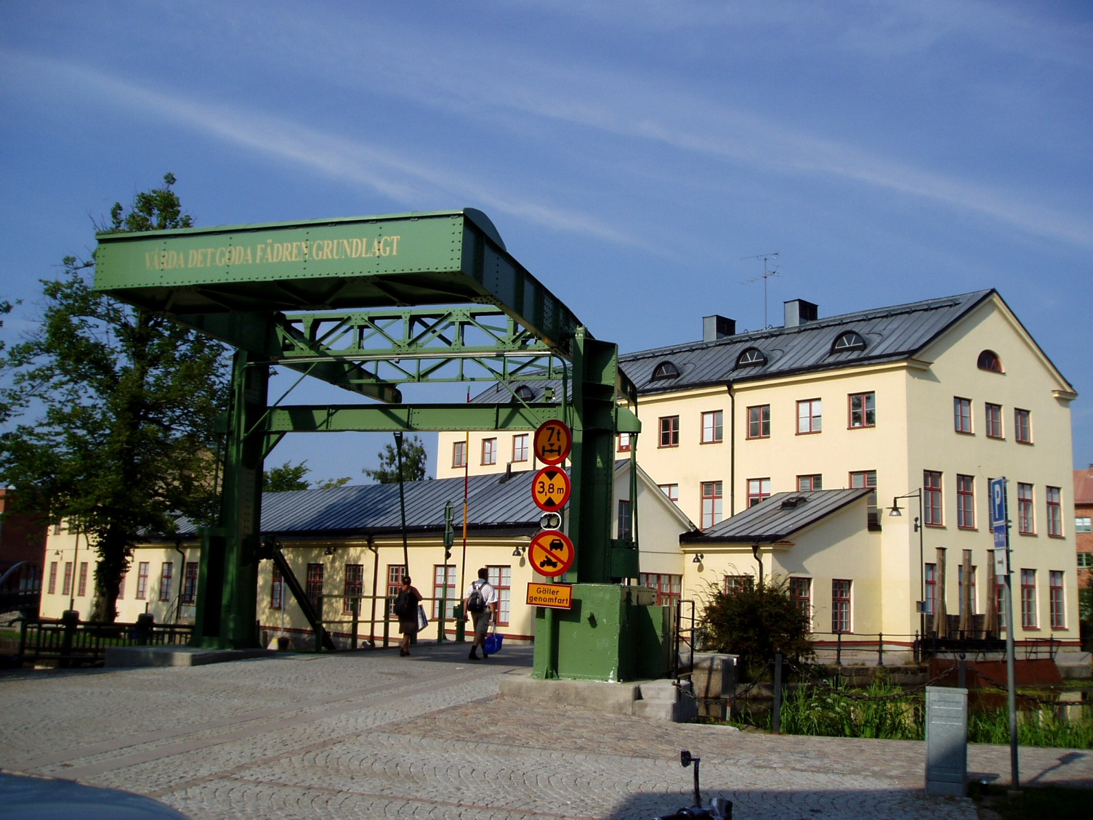 Eskilstuna, Sweden, water lock